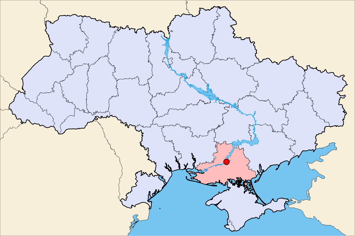 Description = Gammalsvenskby geographical position Source = own work, Skluesener Date = 22.01.2006 Author = Skluesener Credits = Colours chosen according to a map of steschke